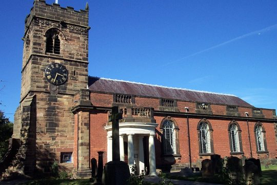 SS Mary and Luke parish church, Shareshill, Staffordshire, seen from the south